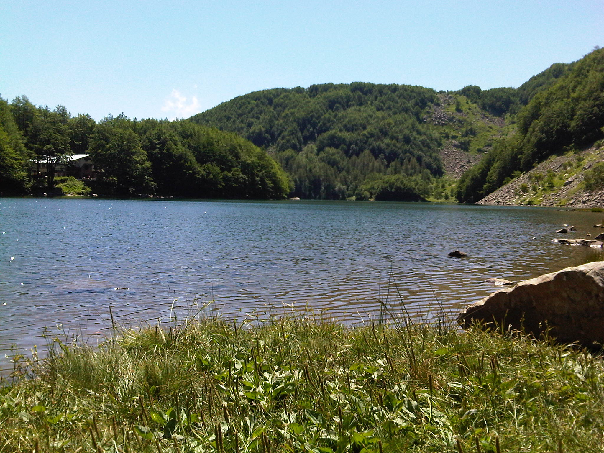 Lake Santo, on the Apennines, seen from its northern coast.